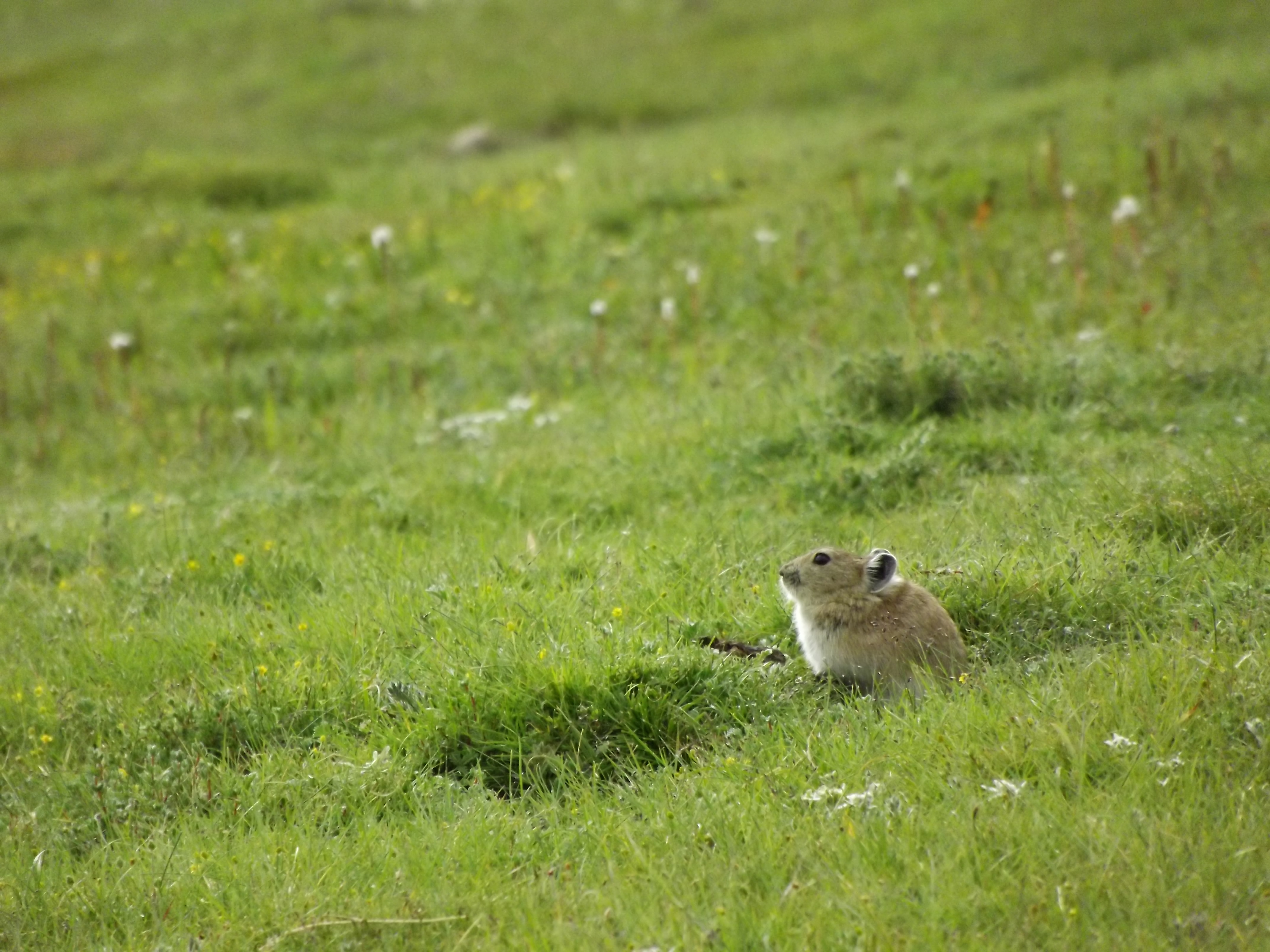 summer